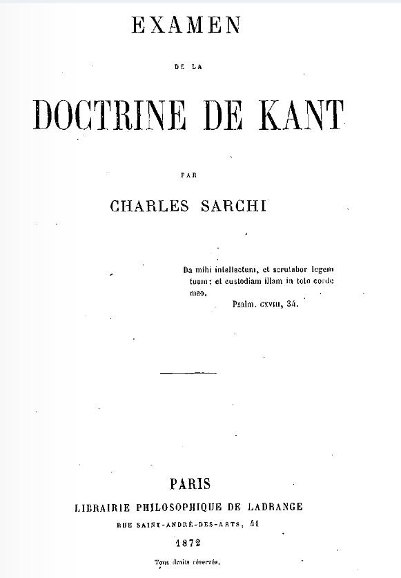 "Examen de la doctrine de Kant", by Charles Sarchi (1803-1879), published in 1872